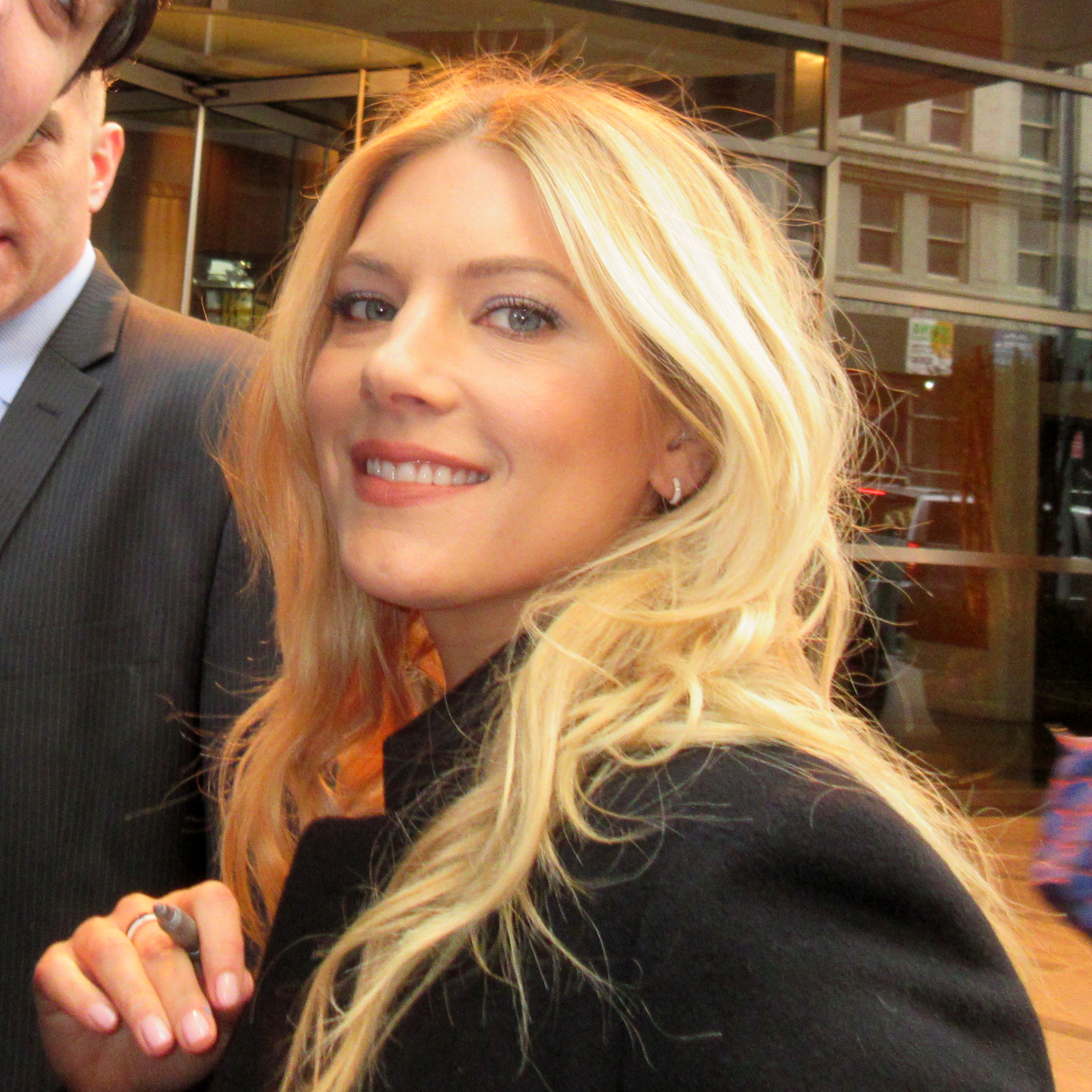 Star of Vikings, Polar, Wu Assassins. NYC March '19.